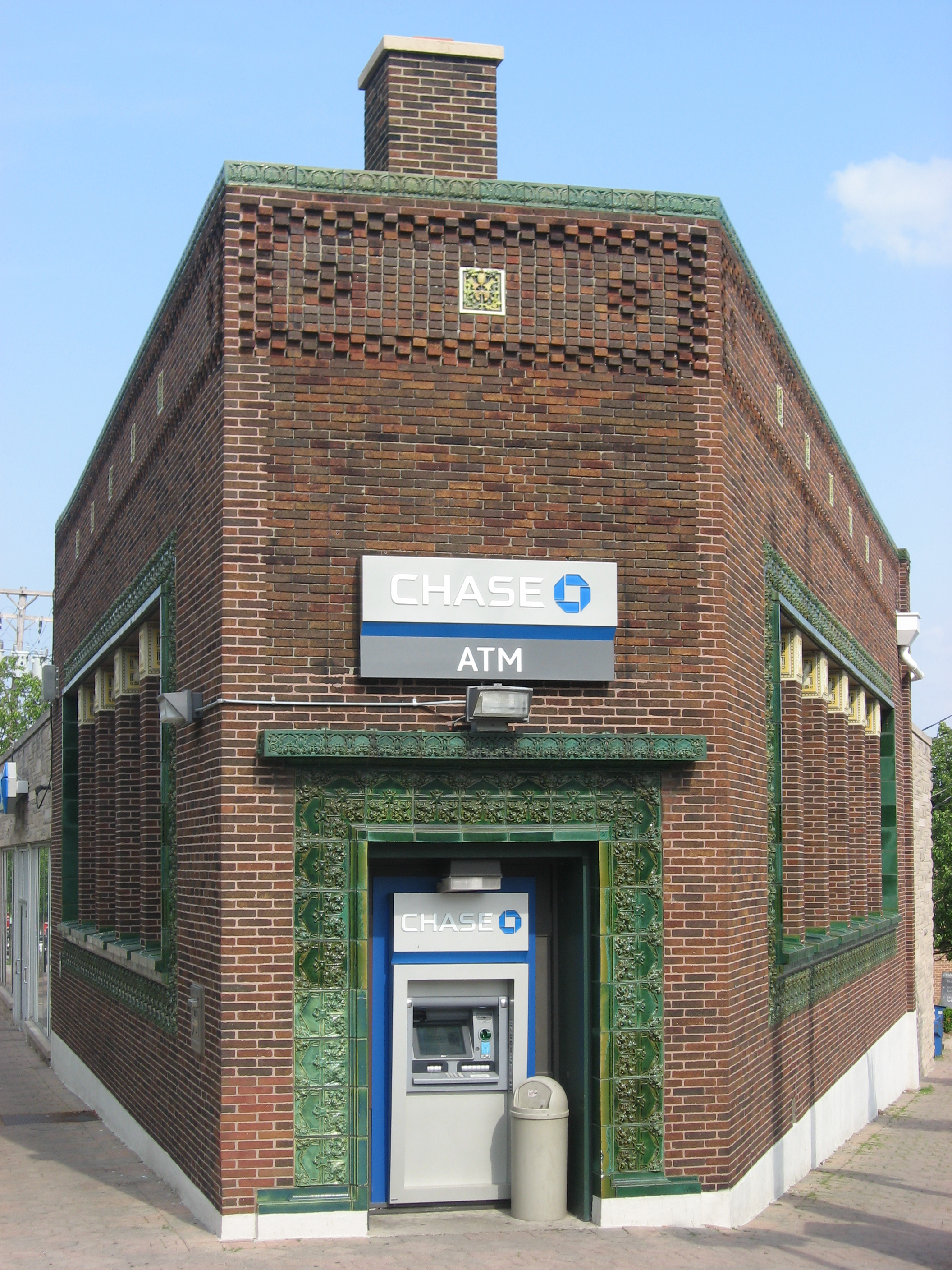 Point with main entrance to the Purdue State Bank (now a Chase bank), located at 210 W. State Street (State Road 26) in downtown West Lafayette, Indiana, United States. Built in 1914, it is the smallest of Louis Sullivan's famed "jewelbox" banks.